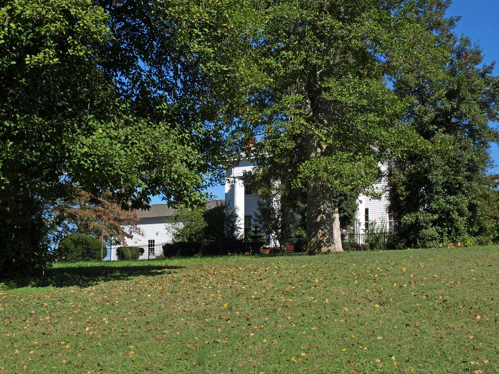 The William Madison Otey House near Meridianville, Alabama, listed on the National Register of Historic Places.